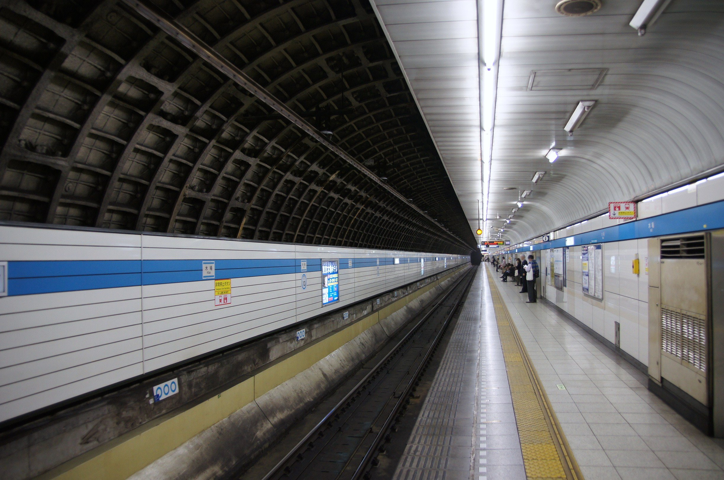 Platform 1 (eastbound) at Kiba Station on the Tokyo Metro Tozai Line in Koto, Tokyo